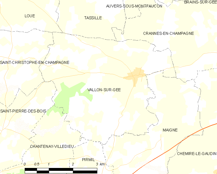 Map of French municipality